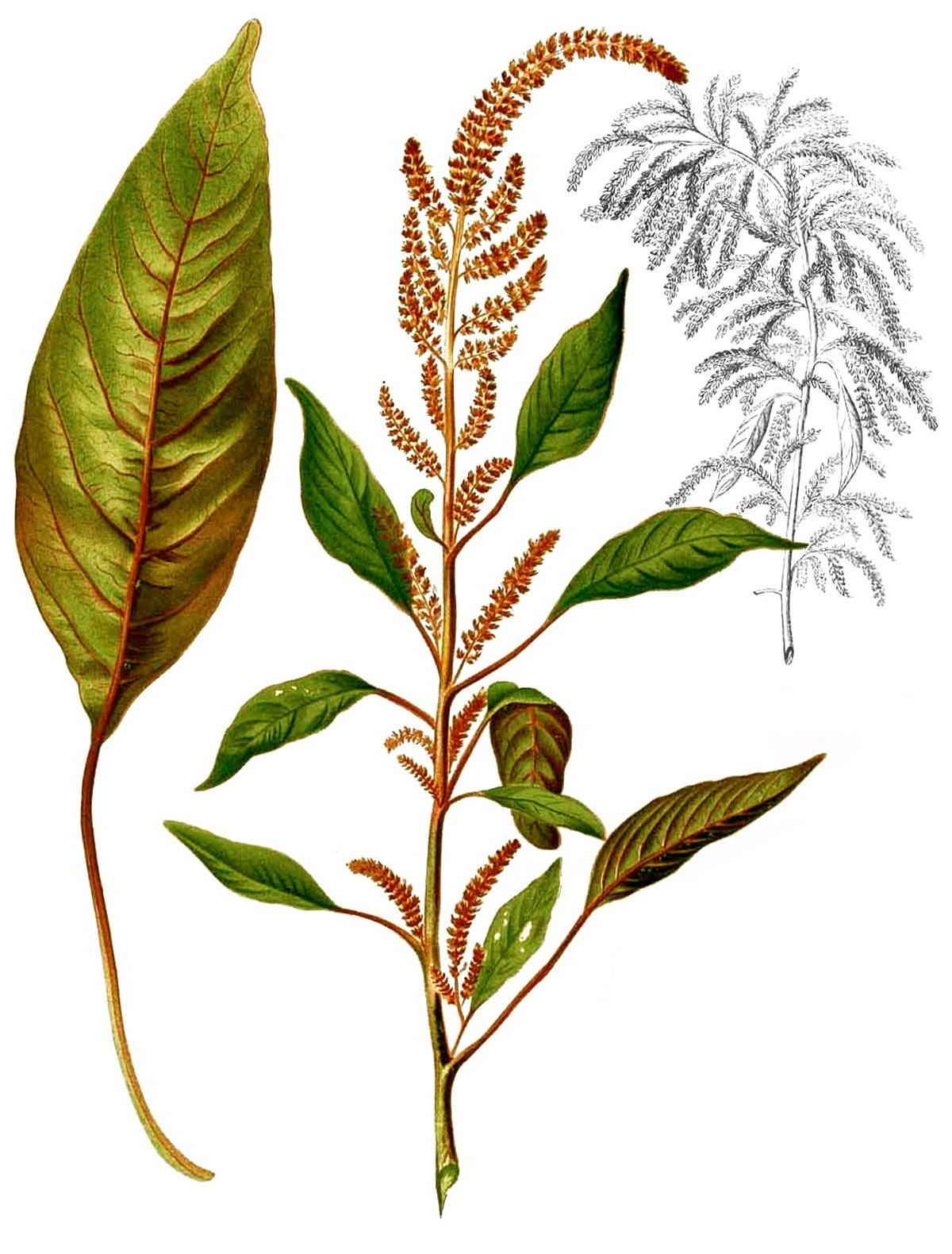 Plate from book